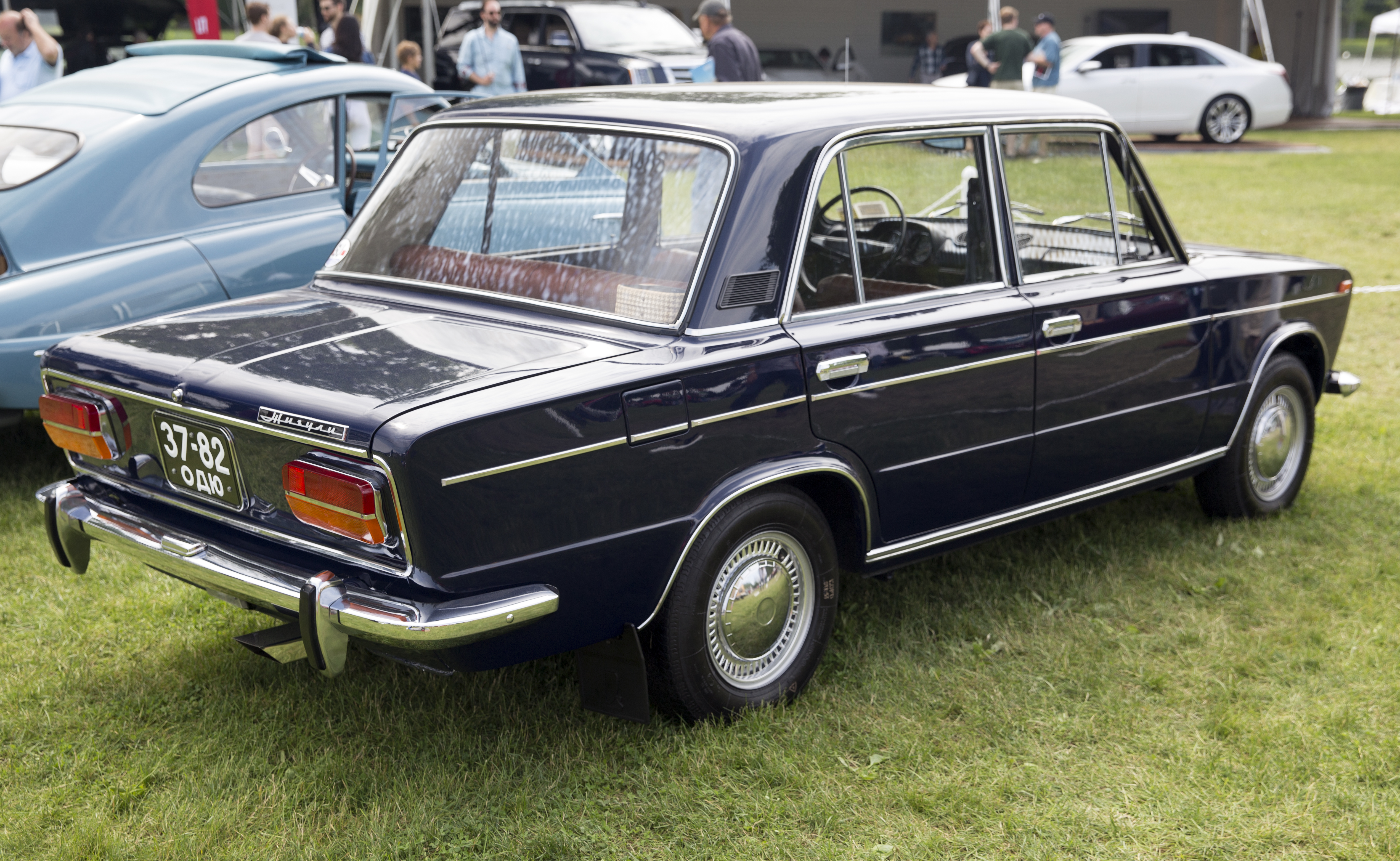 1982 VAZ-21033 (Lada 1300S in export markets) at the 2018 Greenwich Concours d'Elegance. The 1300-engined 2103 cost 8617 rubles in 1982, versus 8667 for the 1500 version, meaning that the 21033 was very very rare. This car was given to a woman who won a car in a state lottery; she did not get to pick her specs. An enthusiast had it sympathetically restored in the Ukraine and then shipped it to New York in late 2012.